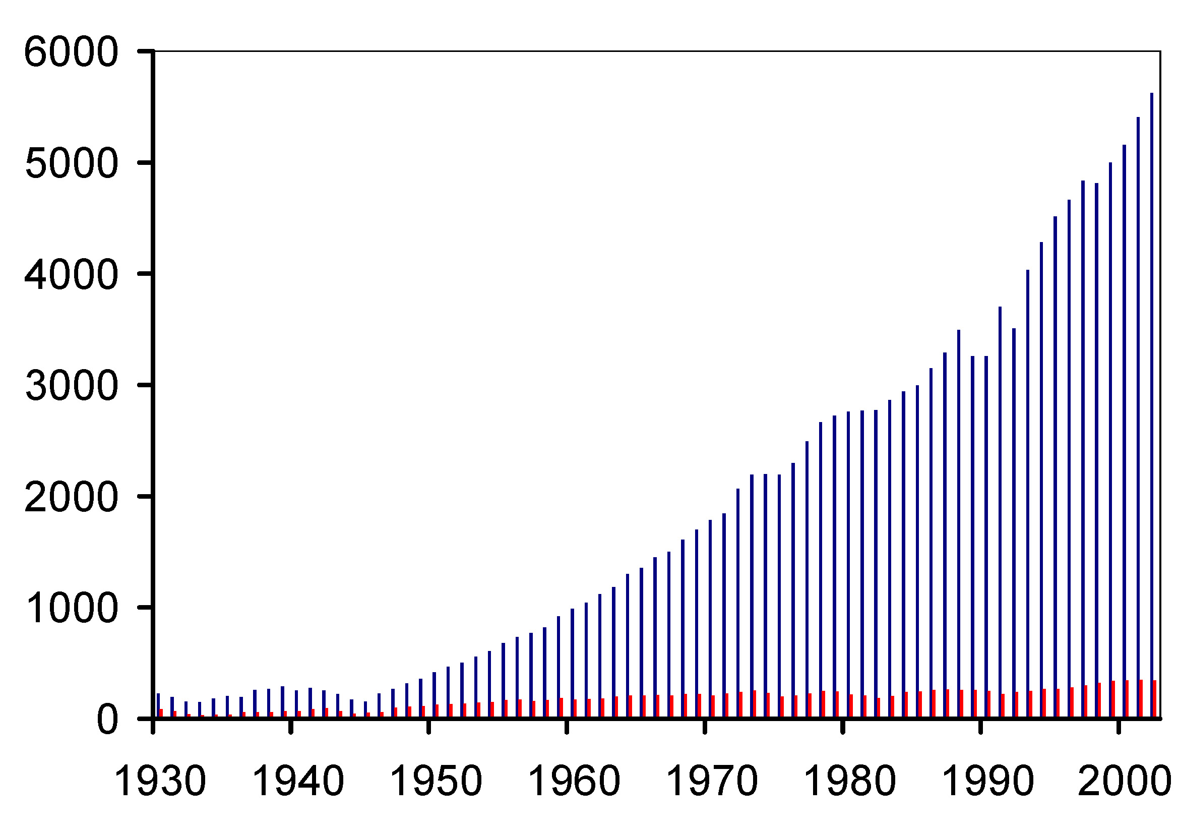 Diagram showing the production of concrete (million cubic metres) from 1930 to 2002. World production in blue, USA production in red. Created by JohnM.